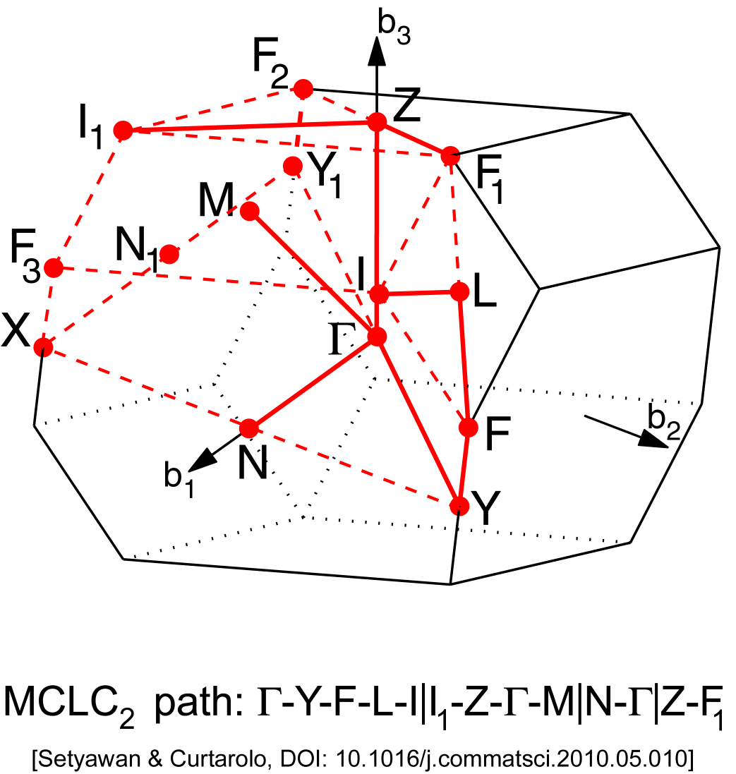 MCLC Brillouin Zone type 2